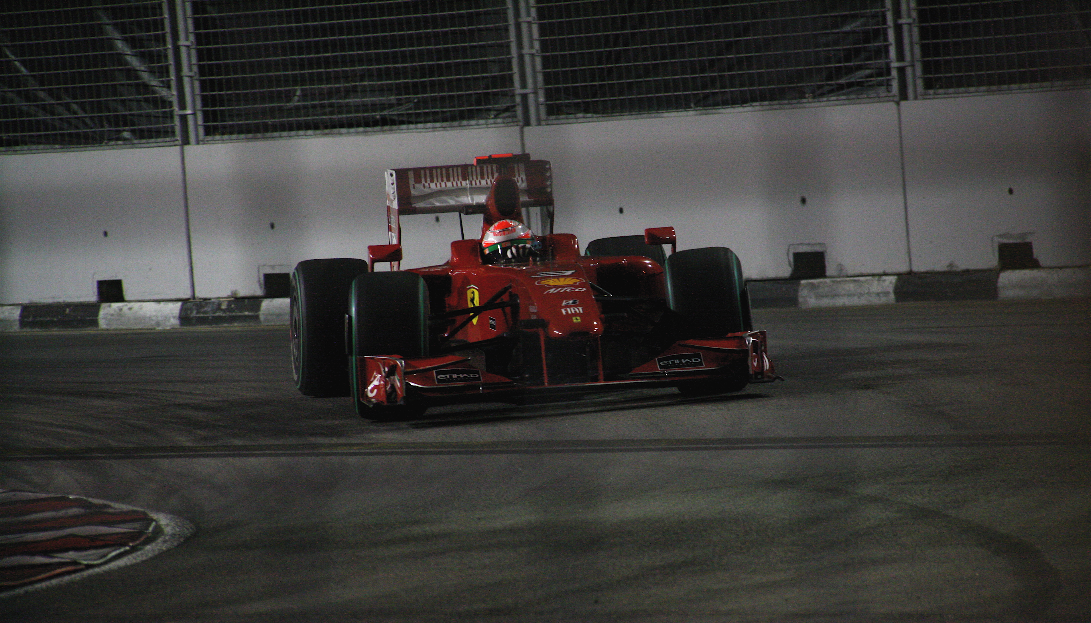 Giancarlo Fisichella driving for Scuderia Ferrari at the 2009 Singapore Grand Prix.